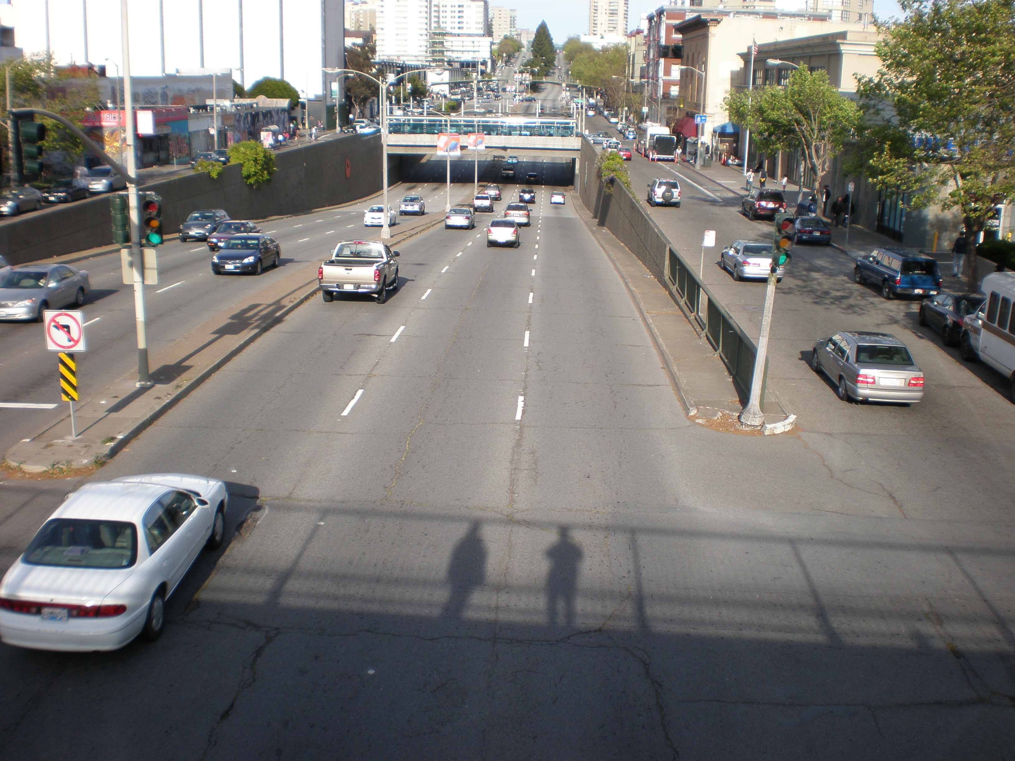 Geary Boulevard as seen from the Steiner Street pedestrian bridge, San Francisco.